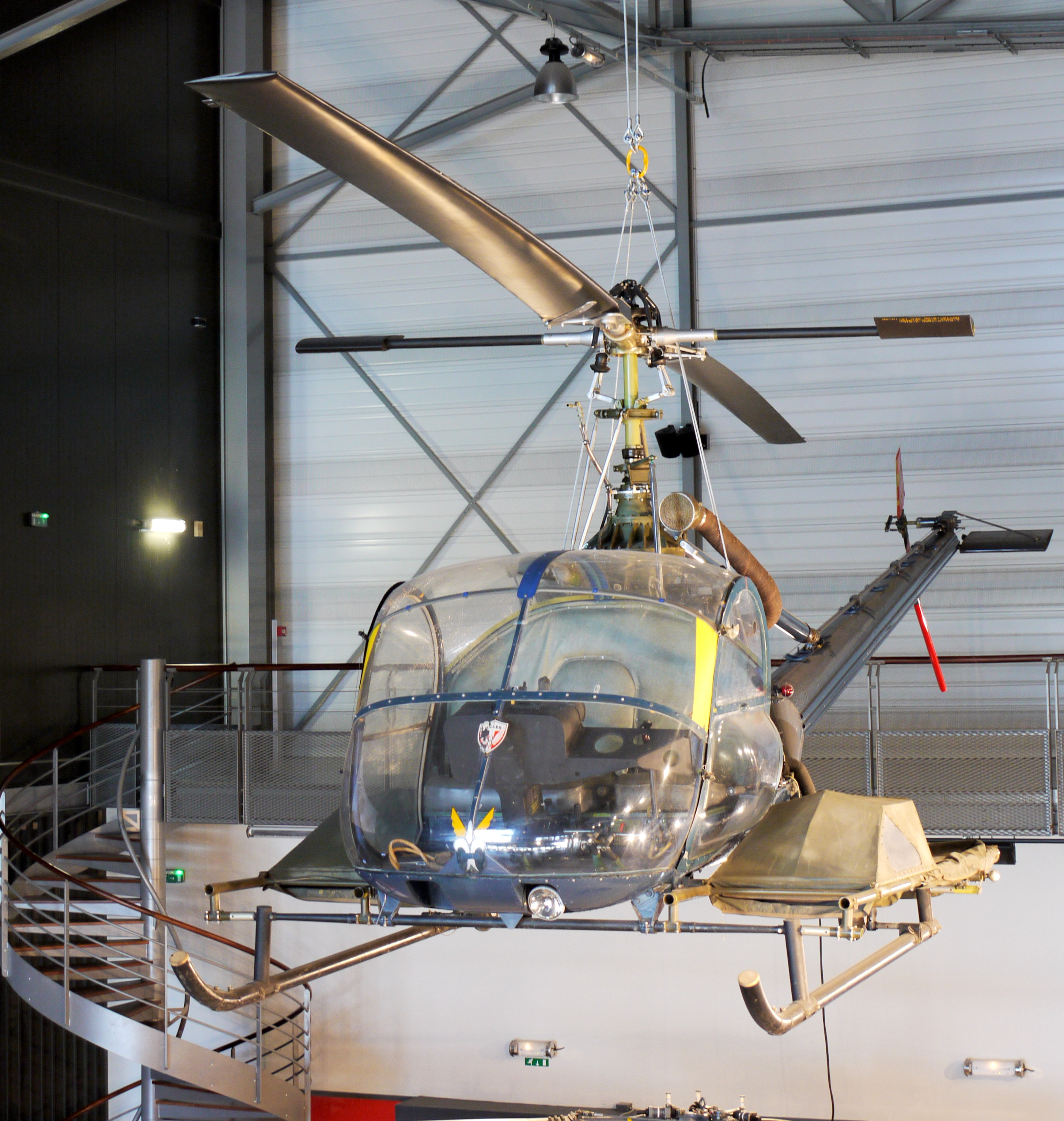 Light helicopter Hiller 360 (1948), Museum of Air and Space Paris, Le Bourget (France)